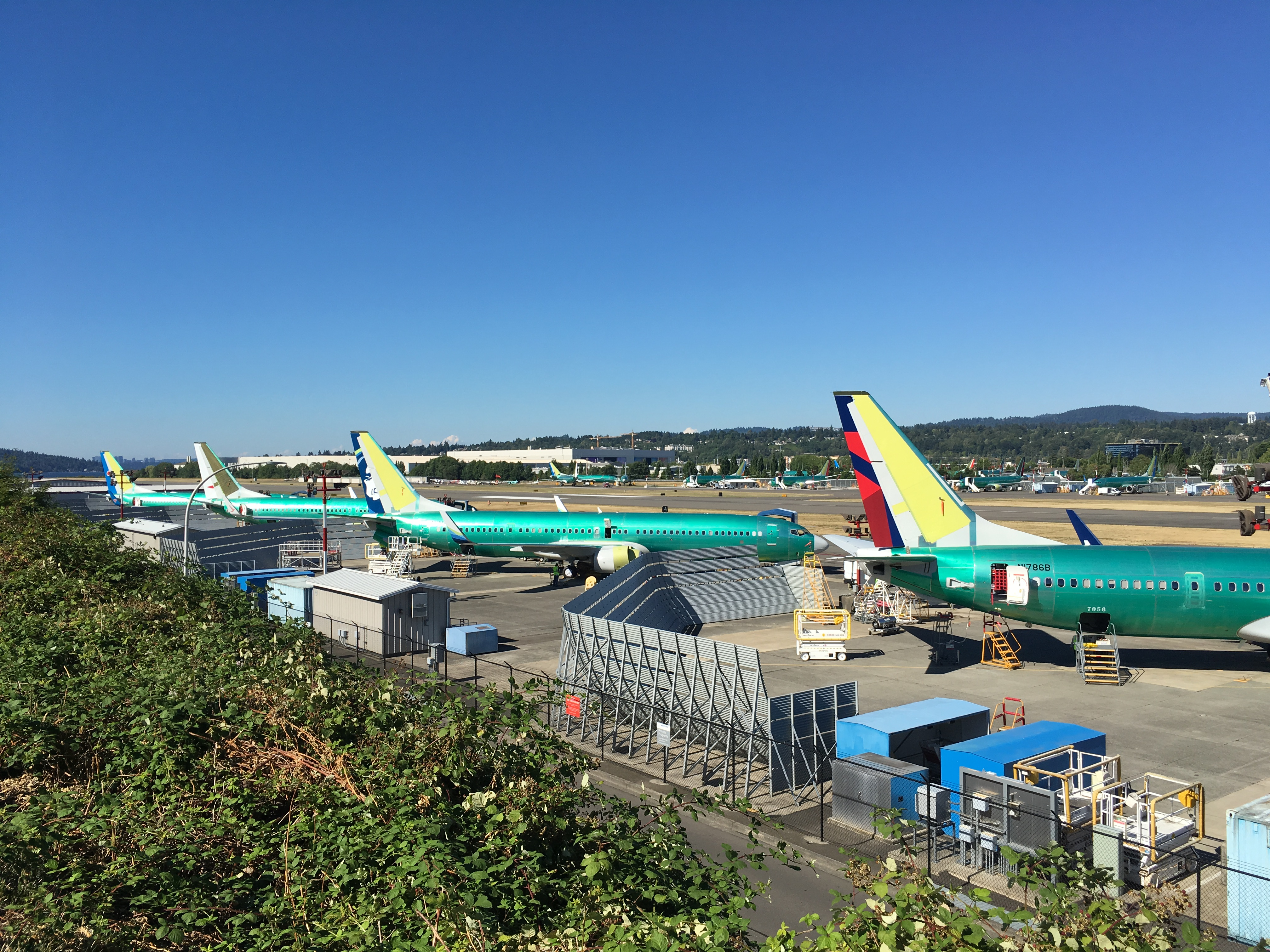 View of brand new 737s being outfitted on the west side of Renton.